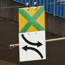 Tram sign in Germany: So 5 - meeting banned